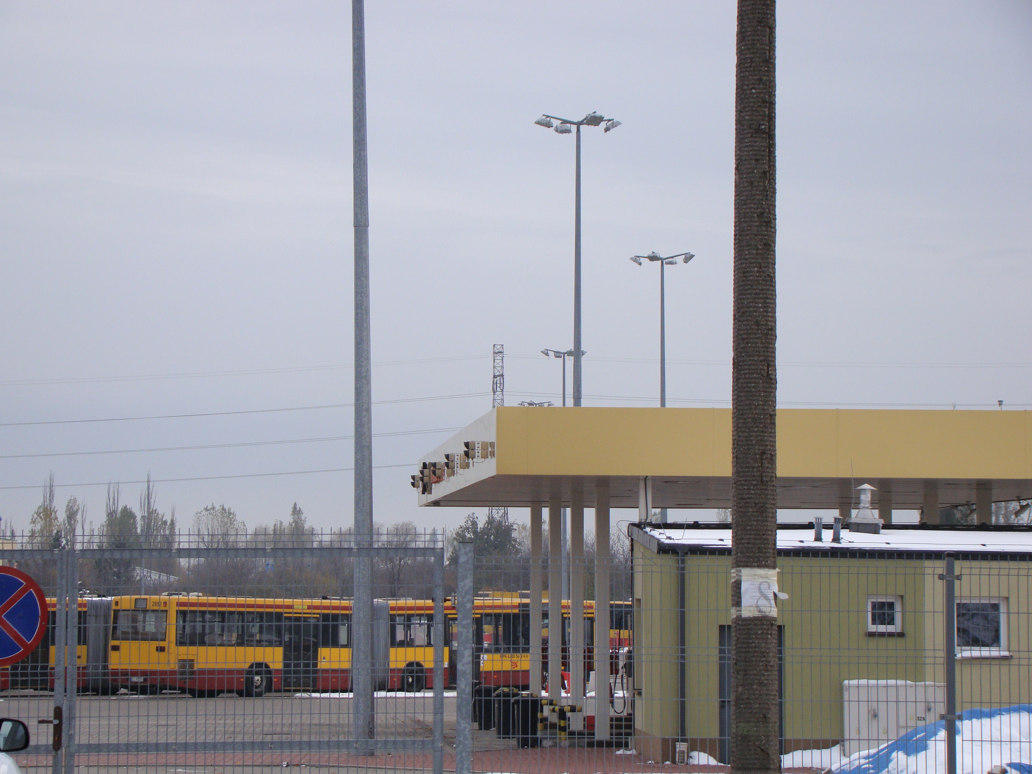 Bus depot in Łódź